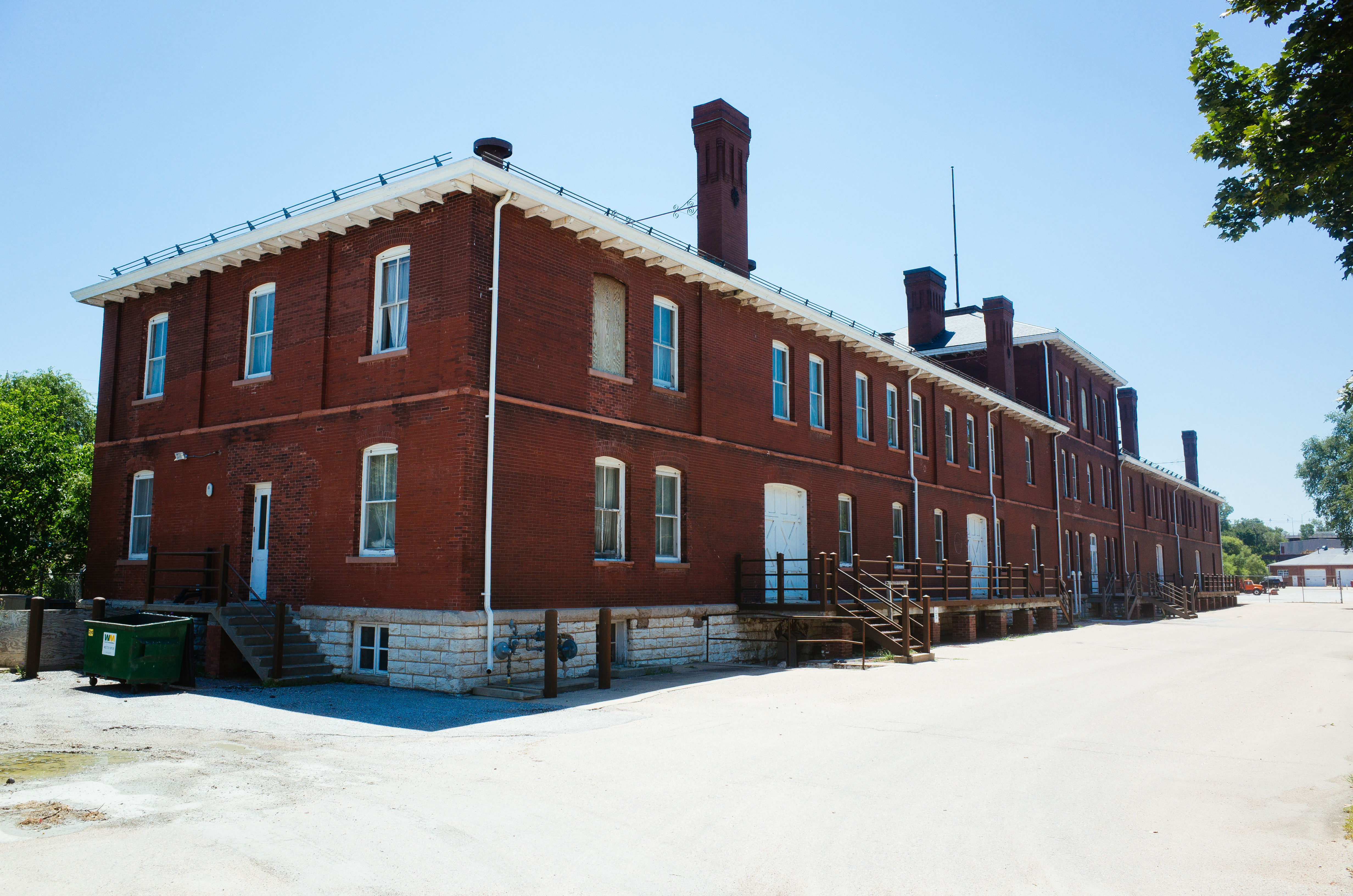 Quartermaster Historic District